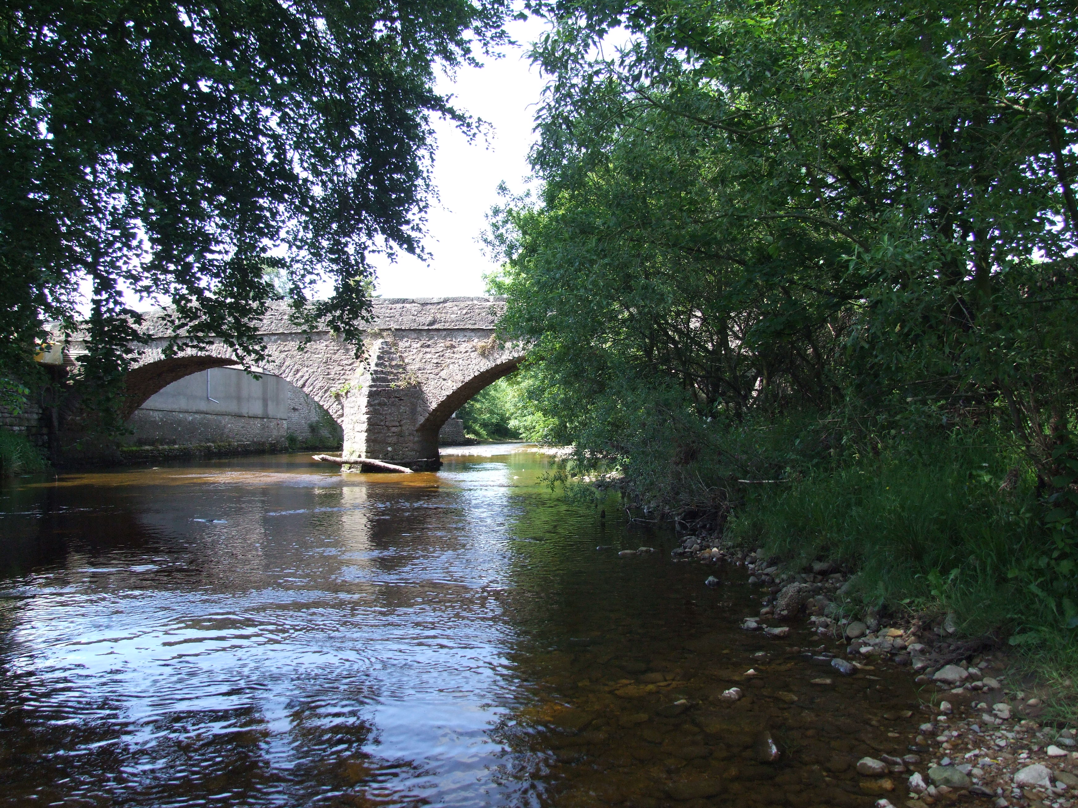 Kirkby Stephen: The River Eden. Frank's Bridge